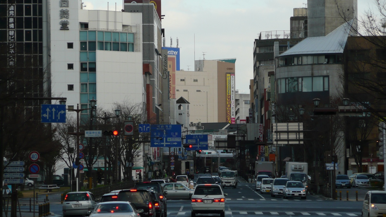 The Ends of National Route 225 (Kagoshima City, Japan)